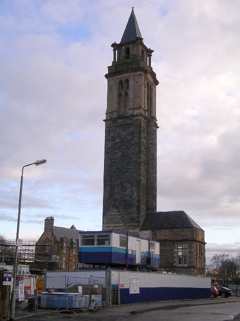 Tower at Leverndale Hospital. Formerly a Lunatic Asylum. Now the old hospital buildings are being converted into modern housing.